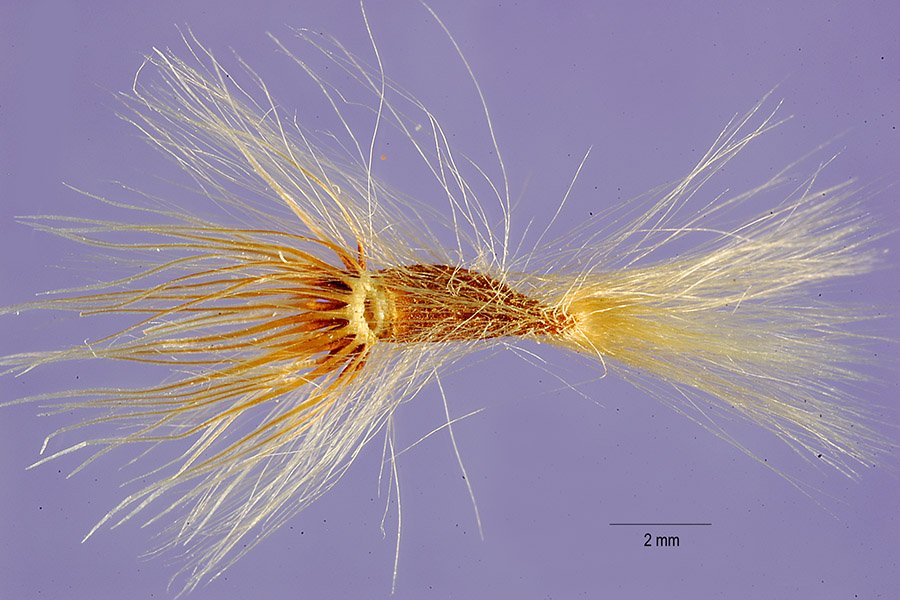 Gazania linearis achene